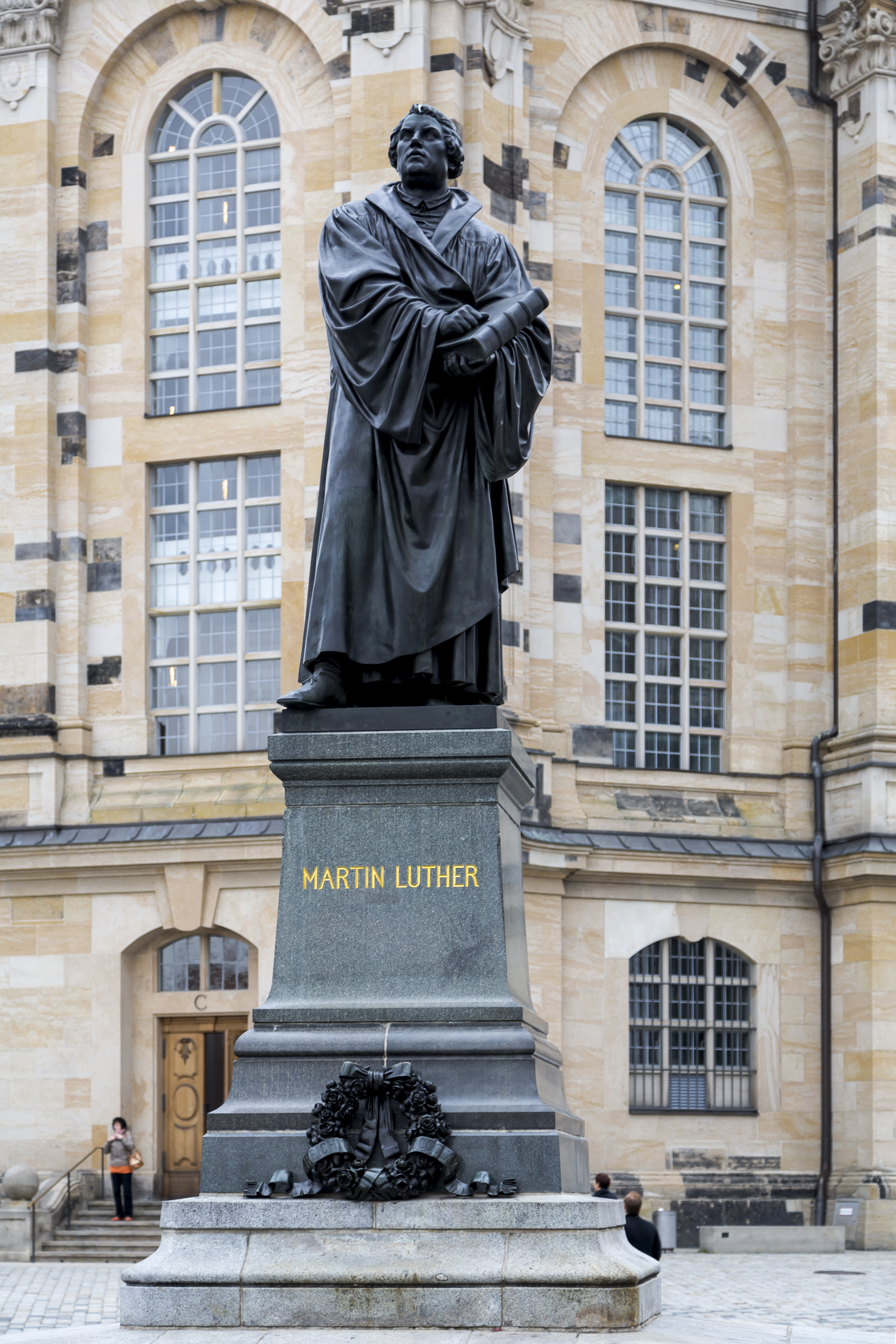 Dresden, Germany: Martin Luther Memorial in front of Frauenkirche